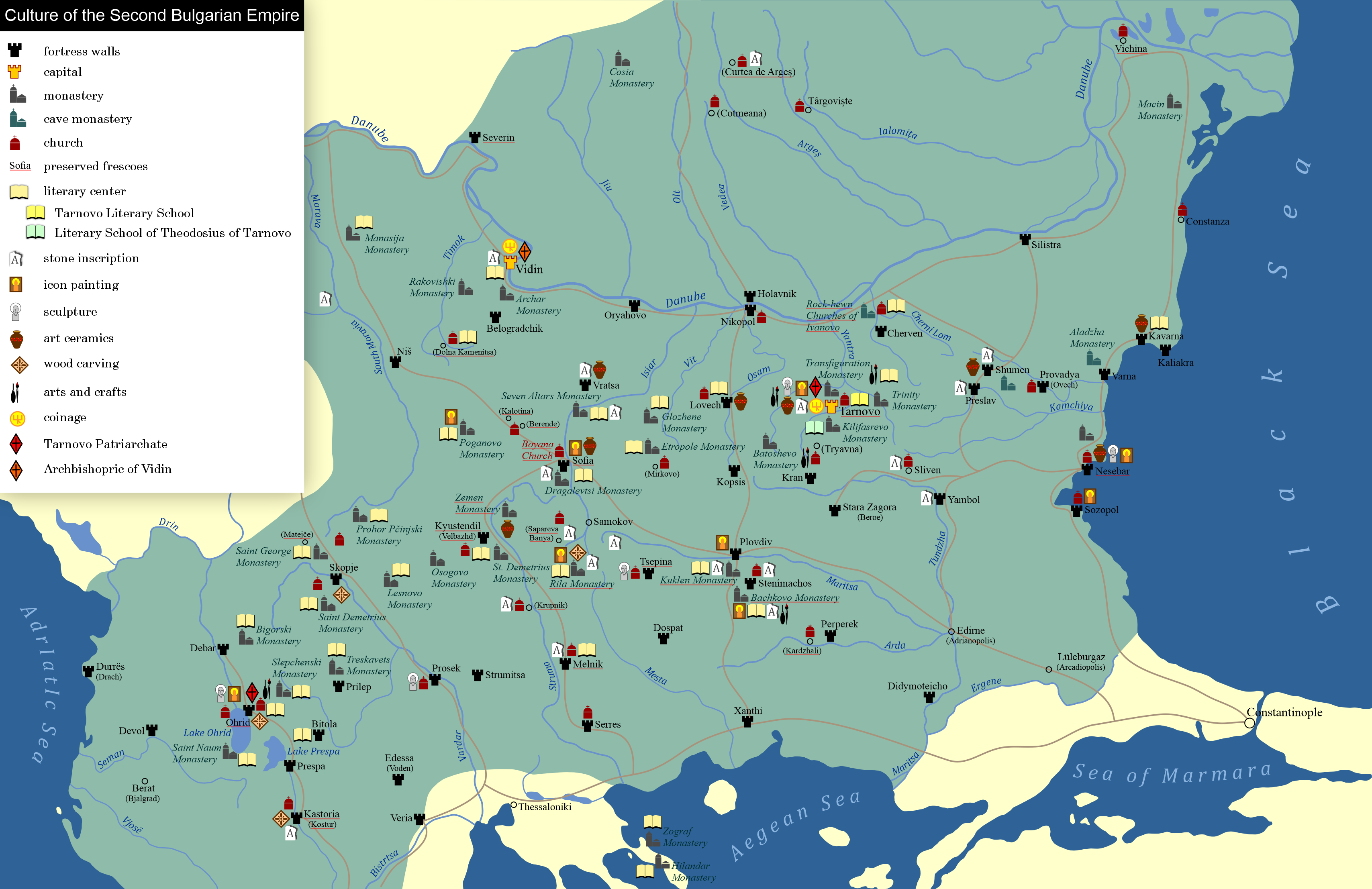 Culture of the Second Bulgarian Empire (1185-1396)